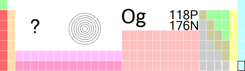 Oganesson on the periodic table